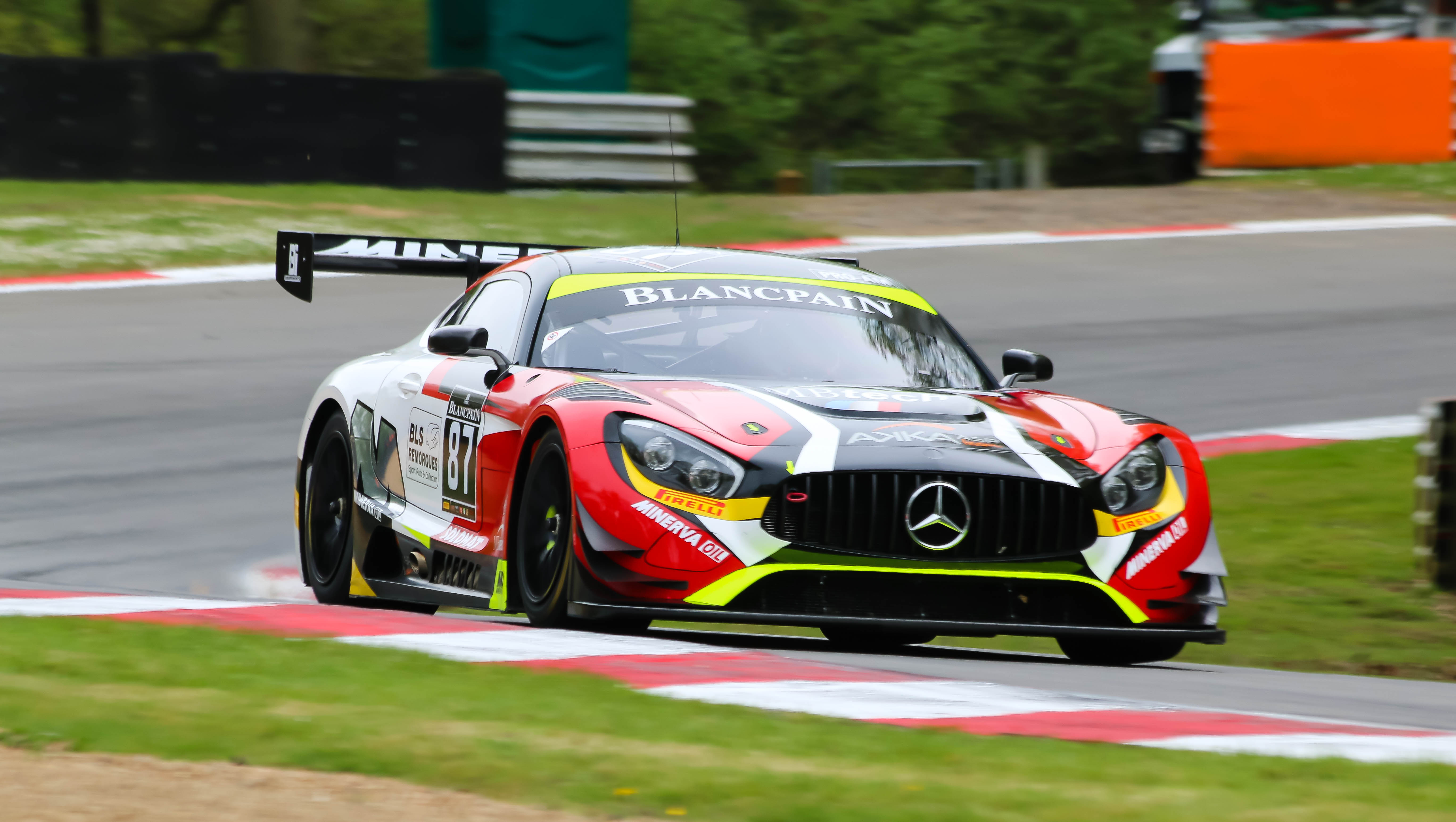 2016 Mercedes AMG GT3, Akka-Asp team